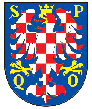 Coat of arms of Olomouc, city in the Czech Republic